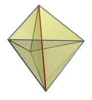 Edge-first projection of the pentachoron (5-cell) into 3D, with nearest edge shown.